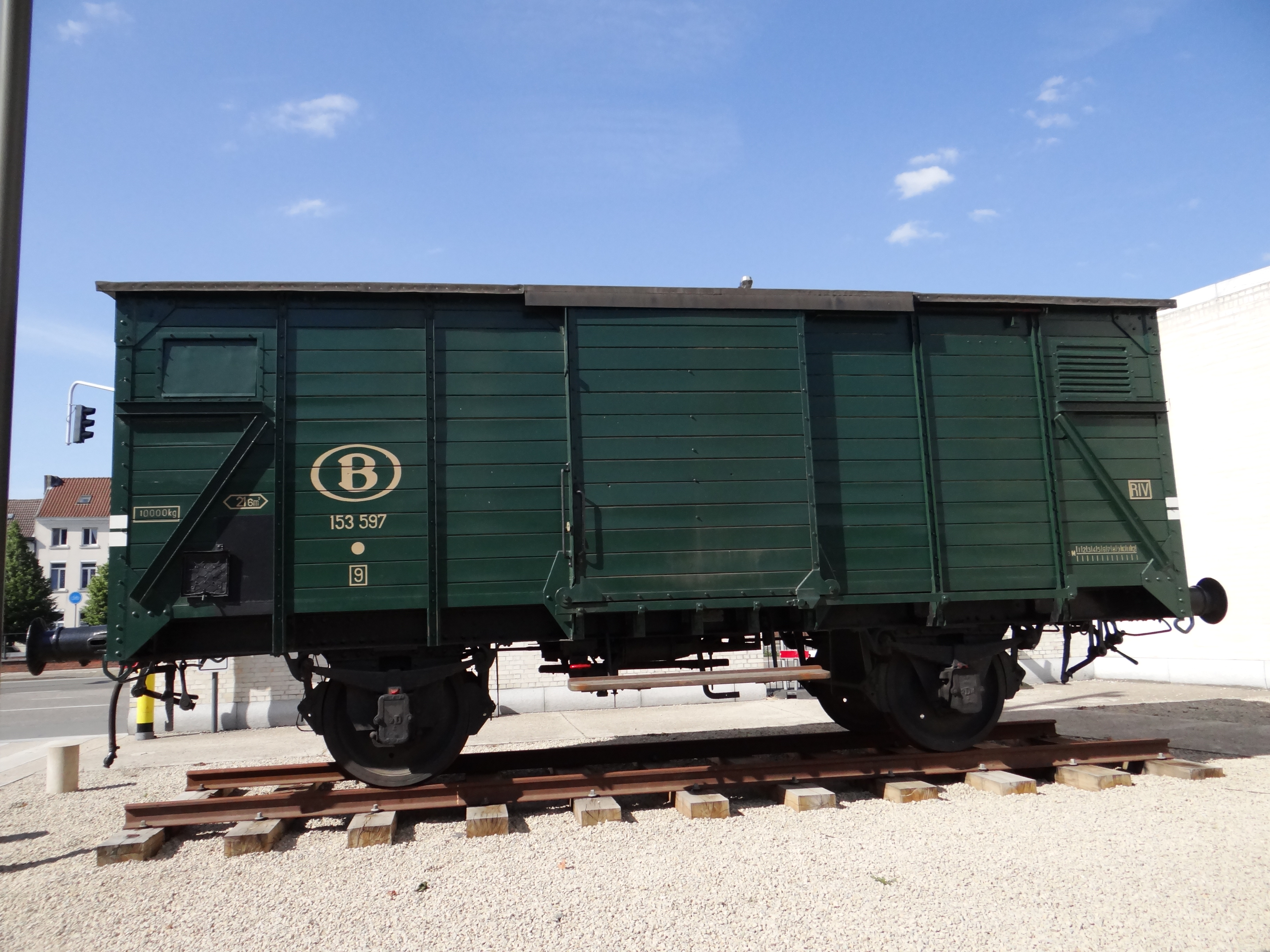 Wagon used from 1943 in order to deport Jewishes and Tzigans, from the "sammellager" (camp) of Mechelen to Auschwitz and other smaller camps. This wagon is located next to the Museum and Memorial of the Kaserne Dossin